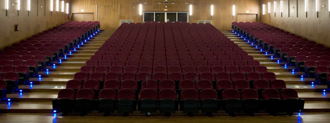 Patio de butacas de la Esad de Málaga